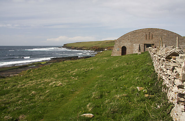 Mid Howe chambered cairn, near to Westness, Orkney Islands, Great Britain. The shed has been built by Historic Scotland to protect the chambered cairn of Mid Howe. The doorway to the left provides free access at all times.